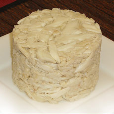 Lump grade crab meat from the Blue Swimming Crab.